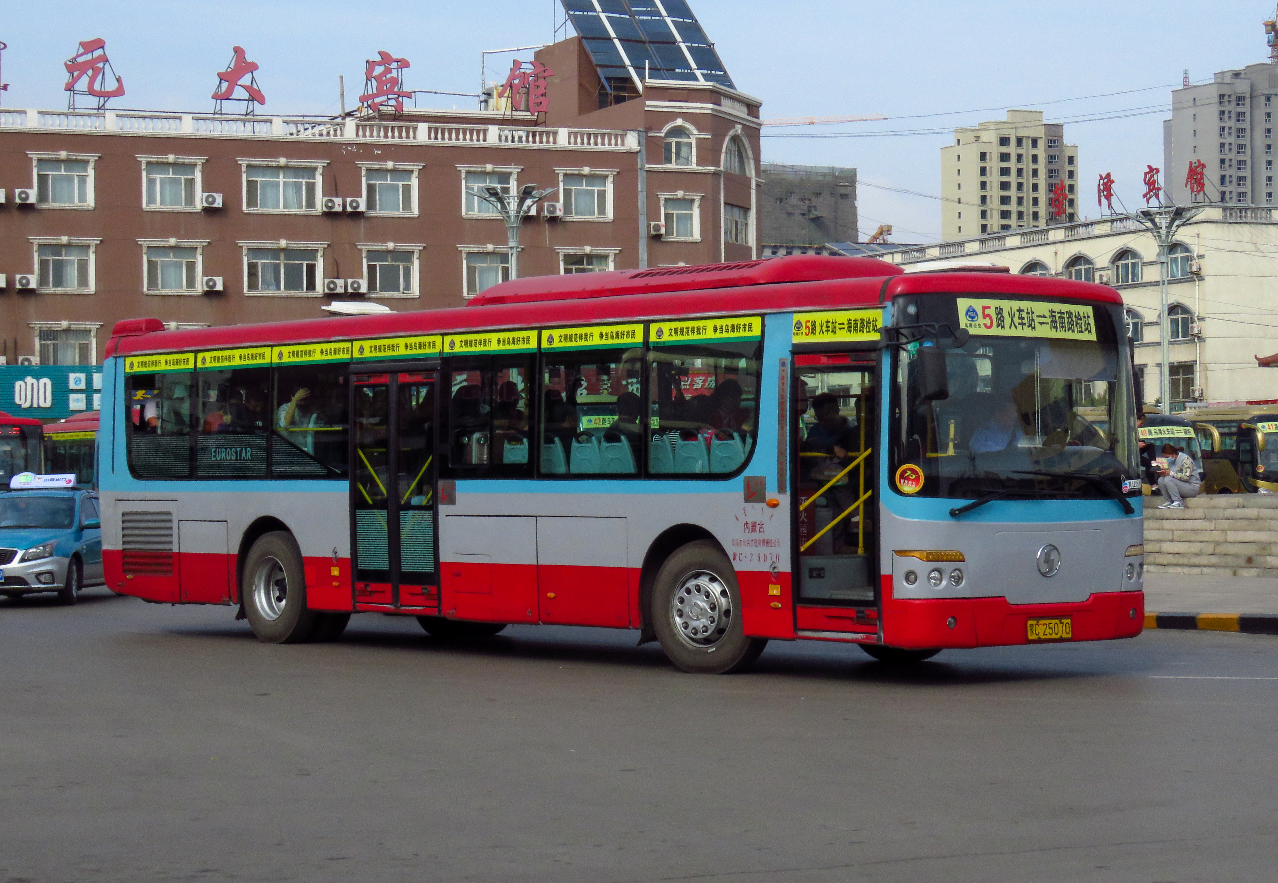 Wuhai is home to tons of Shaanxi-built buses.